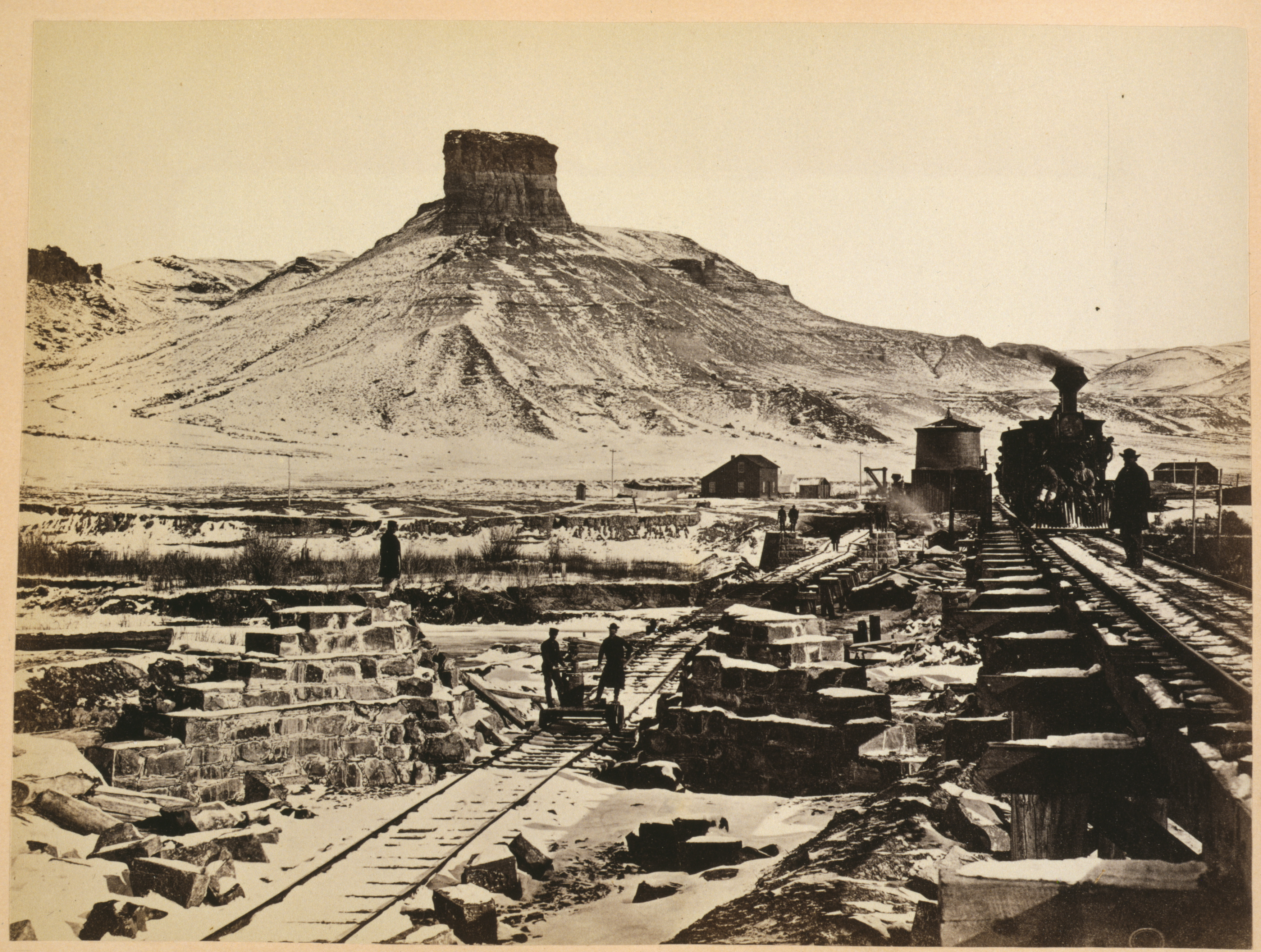 Citadel Rock butte, Green River, Wyoming, 1868. Albumen print. Shows construction of a railroad bridge in the Green River Valley, Wyoming, and Citadel Rock, a prominent rock formation rising above the plateau.